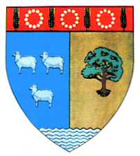 Coat of arms of Teleorman County, Romania.